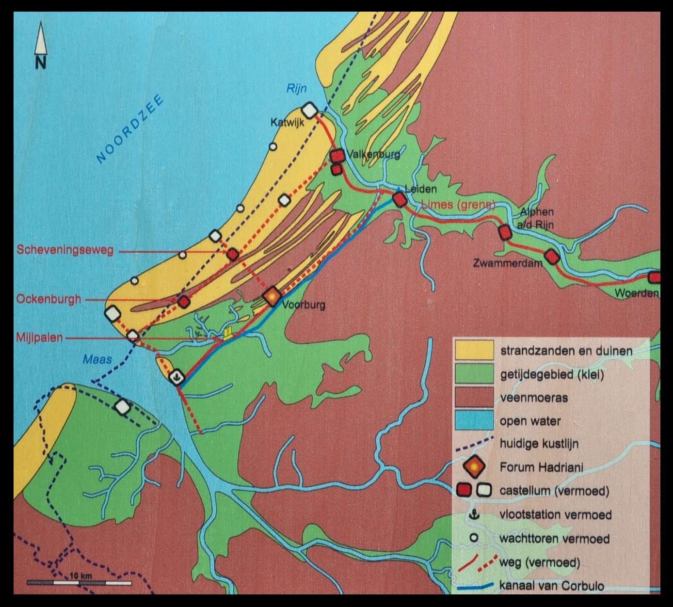 Map of the area between the old mouth of the Meuse and the (Old) Rhine in the second century AD (= the area around The Hague, Netherlands). It shows roads, waterways and existing and suspected archaeological sites. The map was part of a museum display panel at a public exhibition in the atrium of the city hall of The Hague, June-July 2012.